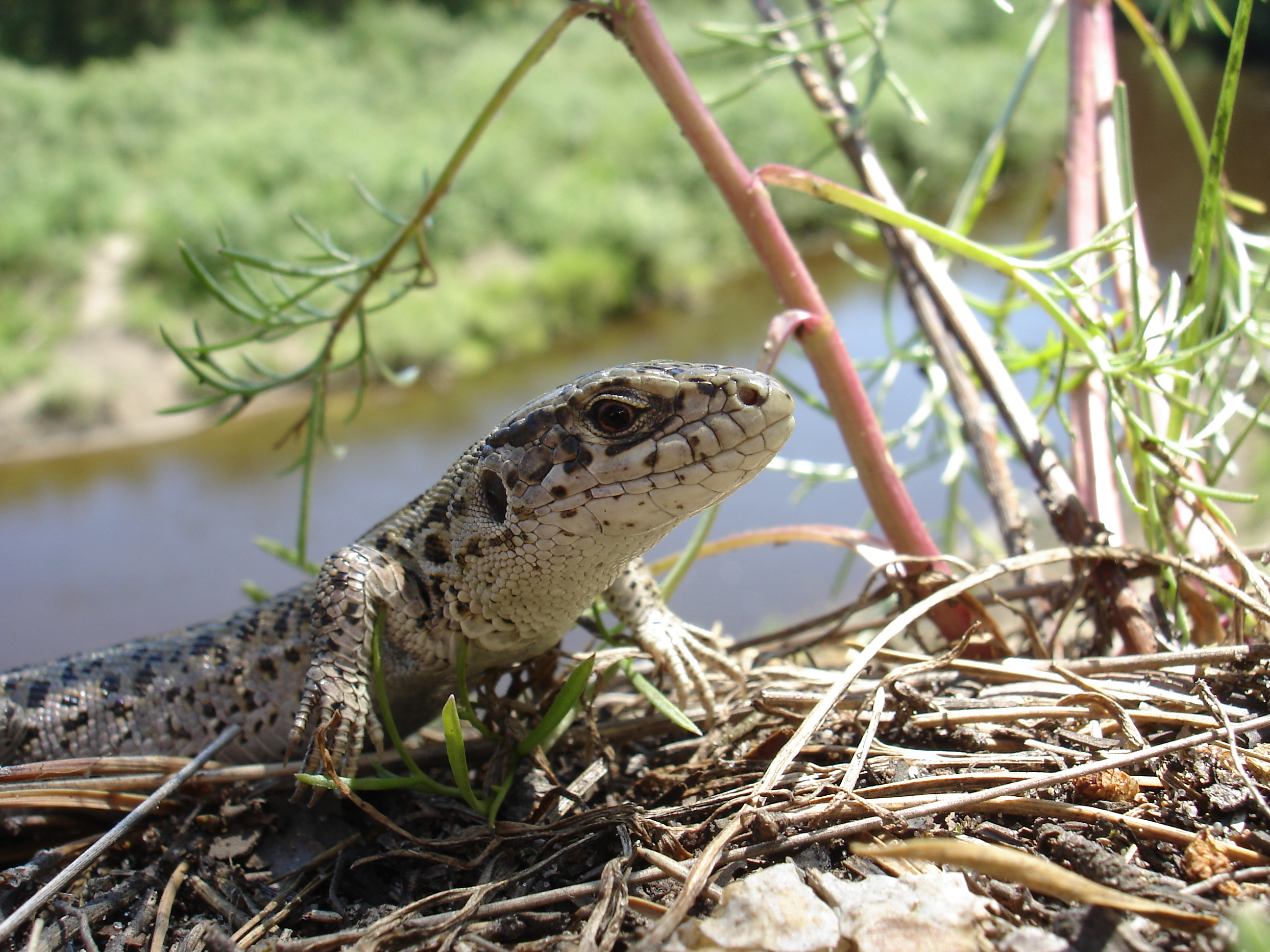 A Sand lizard (Lacerta agilis) on ground near an unidentified plant. Barnaulka River is visible on the background.